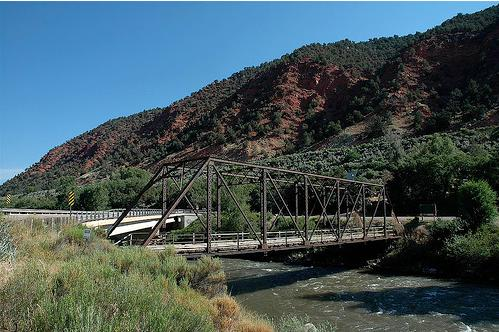 Bridgepixing the Hardwick Bridge, built 1923, over the Roaring Fork River near Carbondale, Colorado, south of Glenwood Springs. Additional Bridge Photos and a Bridge Blog at